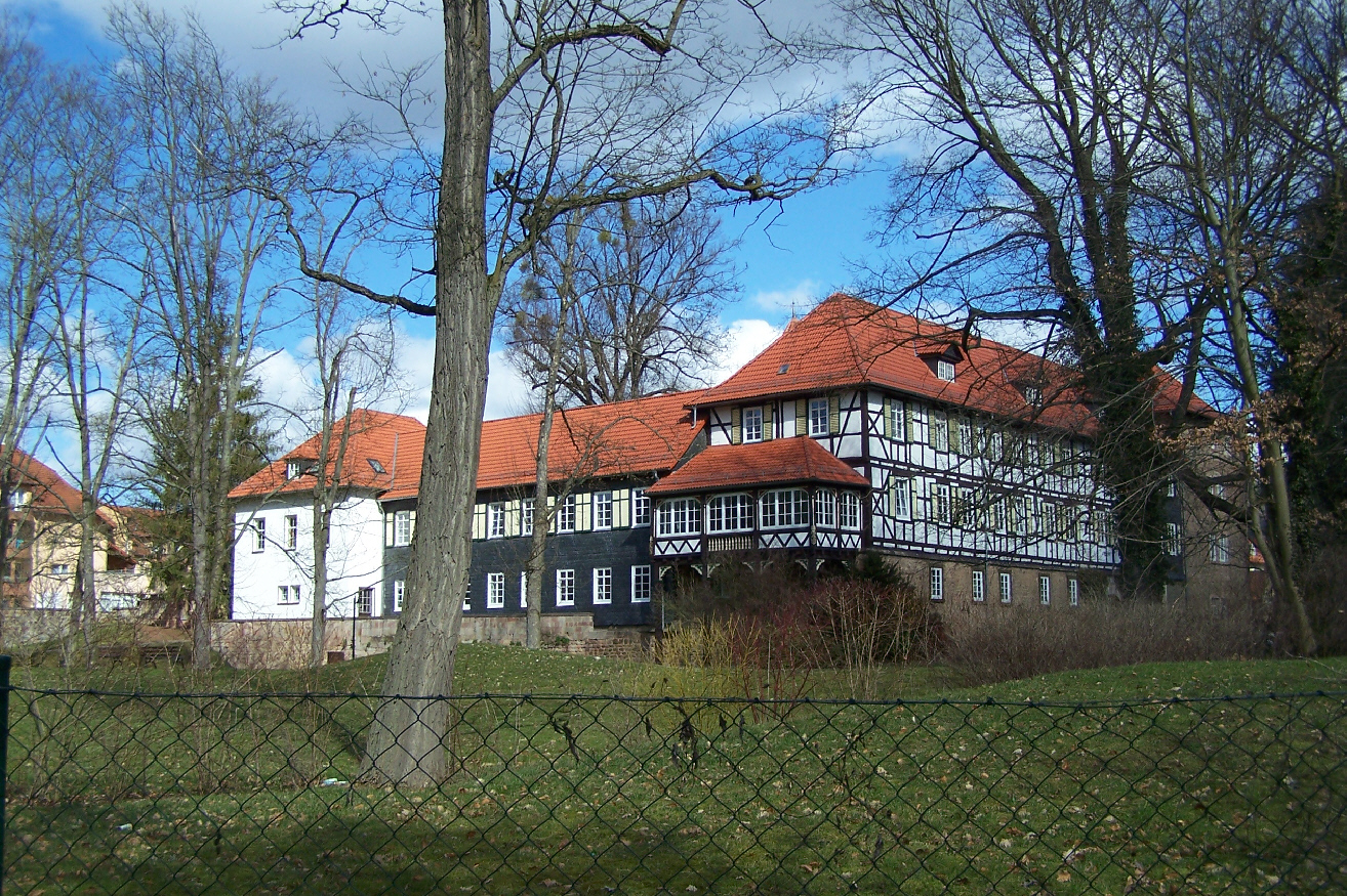 The Lengsfeld castle, viewing from south.